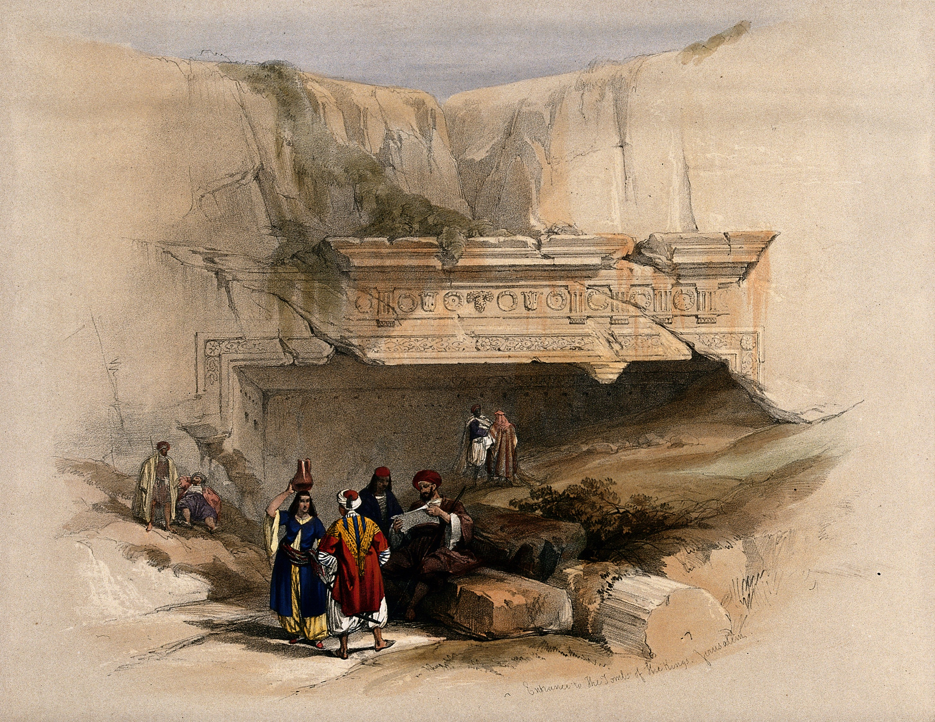 Figures at the entrance of an ancient sepulchre, near Jerusalem, Israel. Coloured lithograph by Louis Haghe after David Roberts, 1842. Iconographic Collections Keywords: David Roberts; Louis Haghe